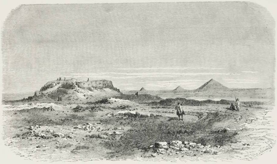 MASTABA FAR’OON. An Egyptian tomb in the desert.